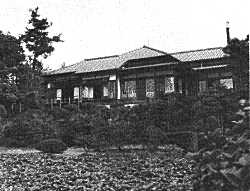 Tekigai-sō, a house in which Fumimaro Konoe (1891–1945) resided in his final years.